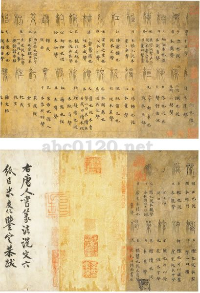 Shuowen Jiezi (説文木部残巻, setsumon mokubu zankan) fragment or "Explaining Simple and Analyzing Compound Characters". Chinese dictionary; oldest extant manuscript of this work; brought to Japan by Naitō Torajirō; fragment concerns the 木 section header. Tang Dynasty, 9th century, presumably 820. One scroll of six pages, ink on paper, 25.4 × 243 cm (10.0 × 96 in). Located at Takeda Science Foundation (武田科学振興財団, Takeda Kagaku Shinkōzaidan), Osaka